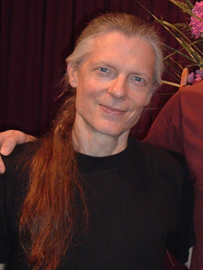 Alex Grey